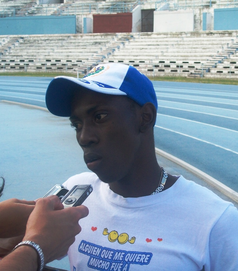 Entrevista a Pedro Pablo Pichardo. Atleta de triple salto, Campeón Mundial Juvenil en 2012 y Subcampeón Mundial absoluto en 2013